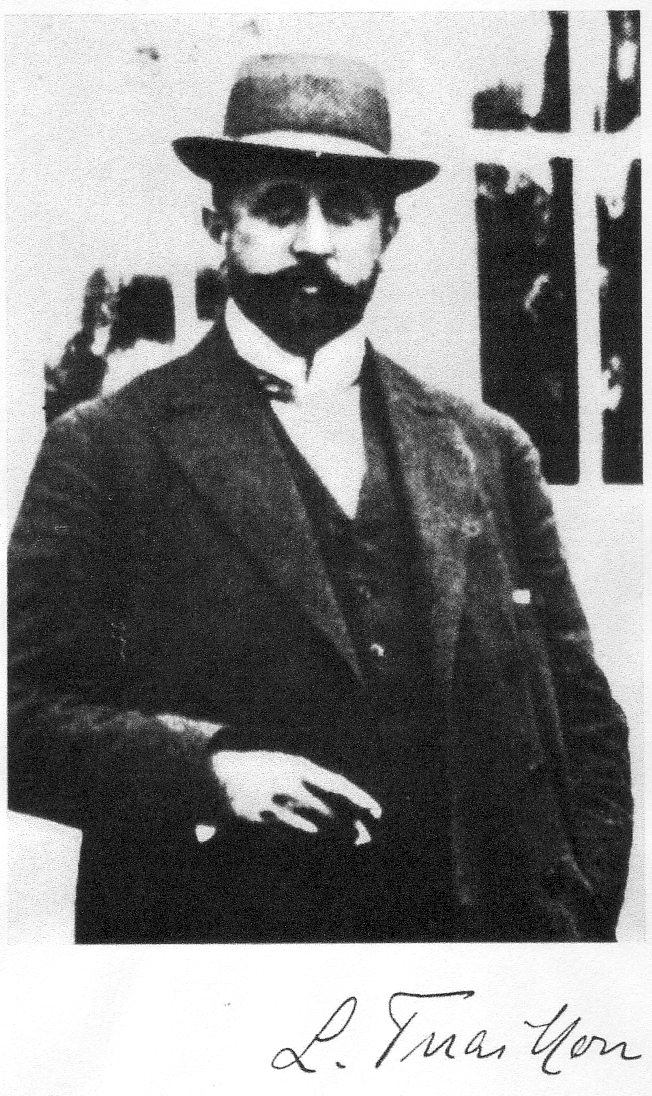 Photographic portrait of the german sculptor Louis Tuaillon (1862-1919), including his signature.